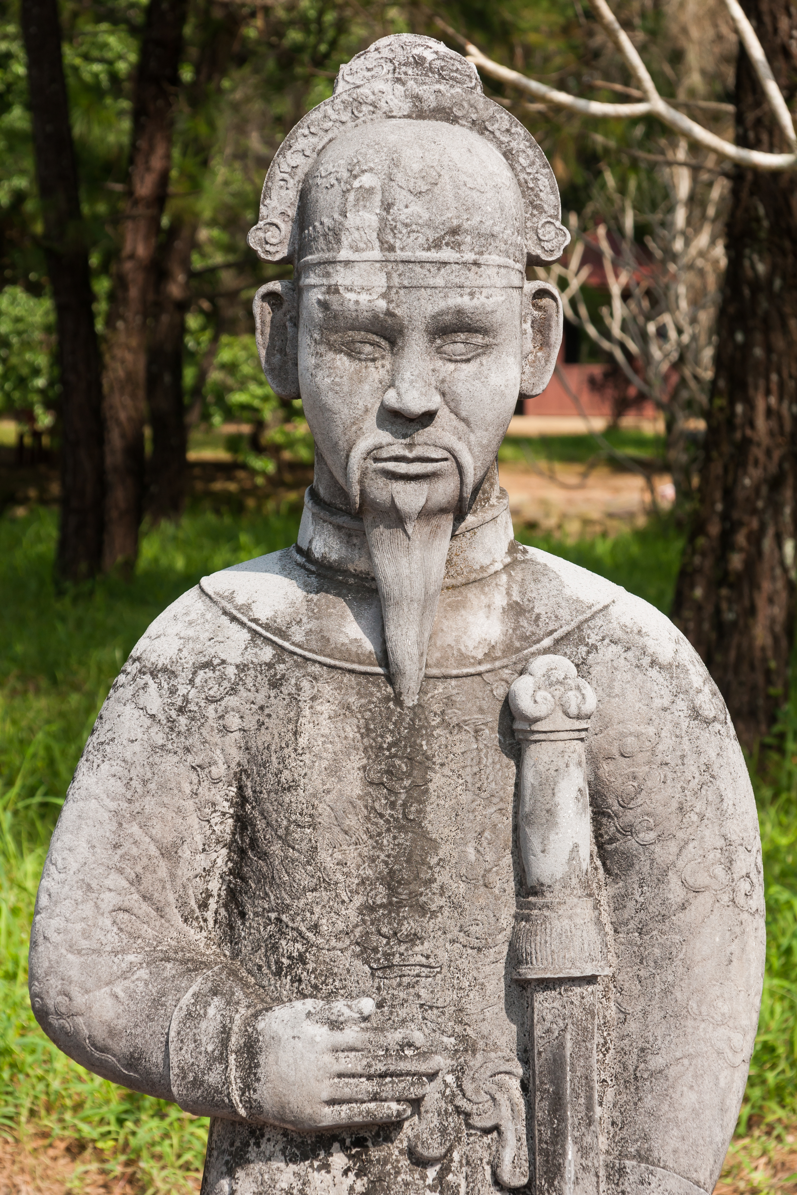 Hue, Vietnam: Statue at the entrance to the compound of Emperor Minh Mang's tomb in Hương Thọ, Huong Tra District, Thừa Thiên-Huế, Vietnam